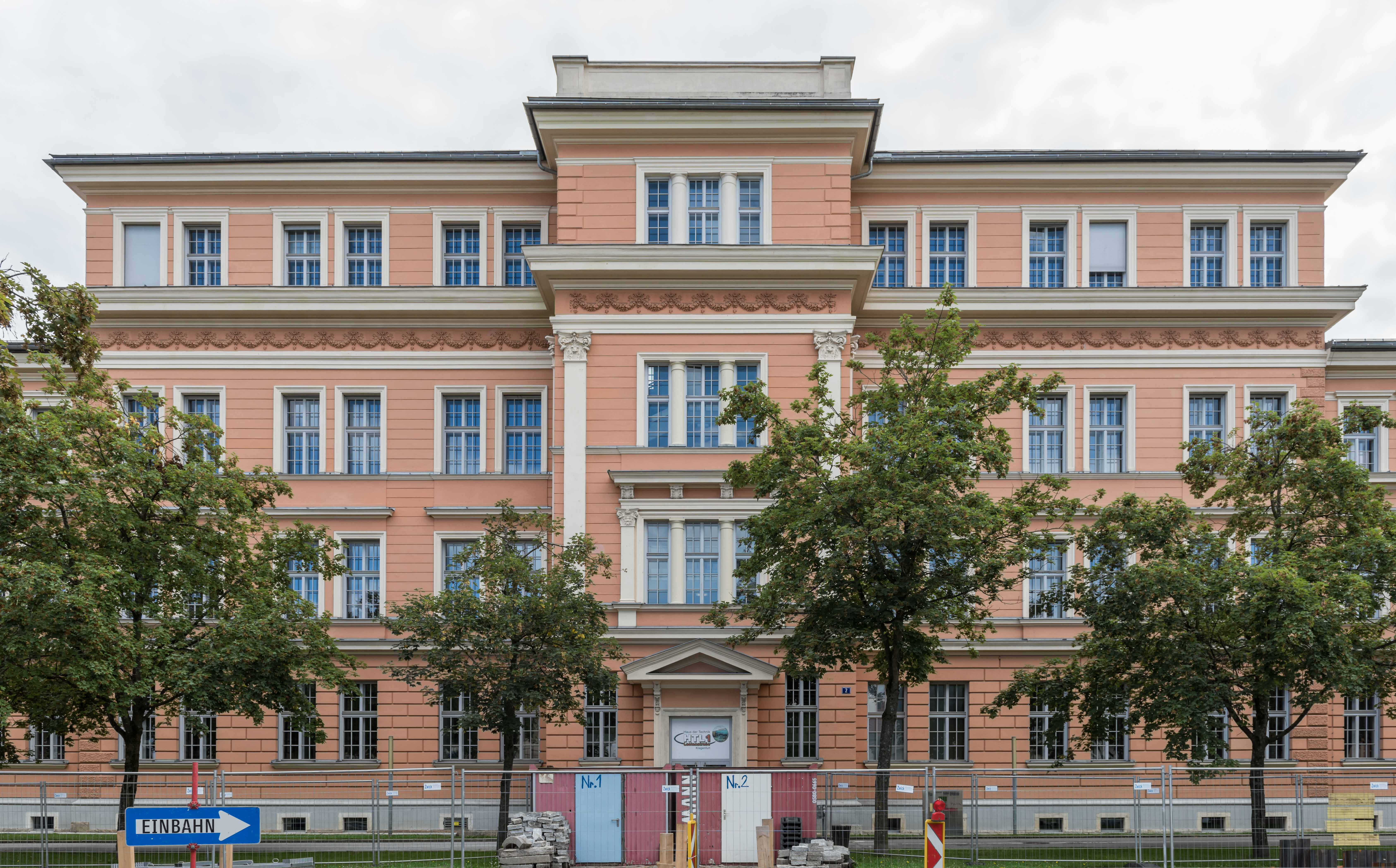 Higher Technical School on Lastenstrasse #1, 6th district «Völkermarkter Vorstadt», Klagenfurt, Carinthia, Austria, EU